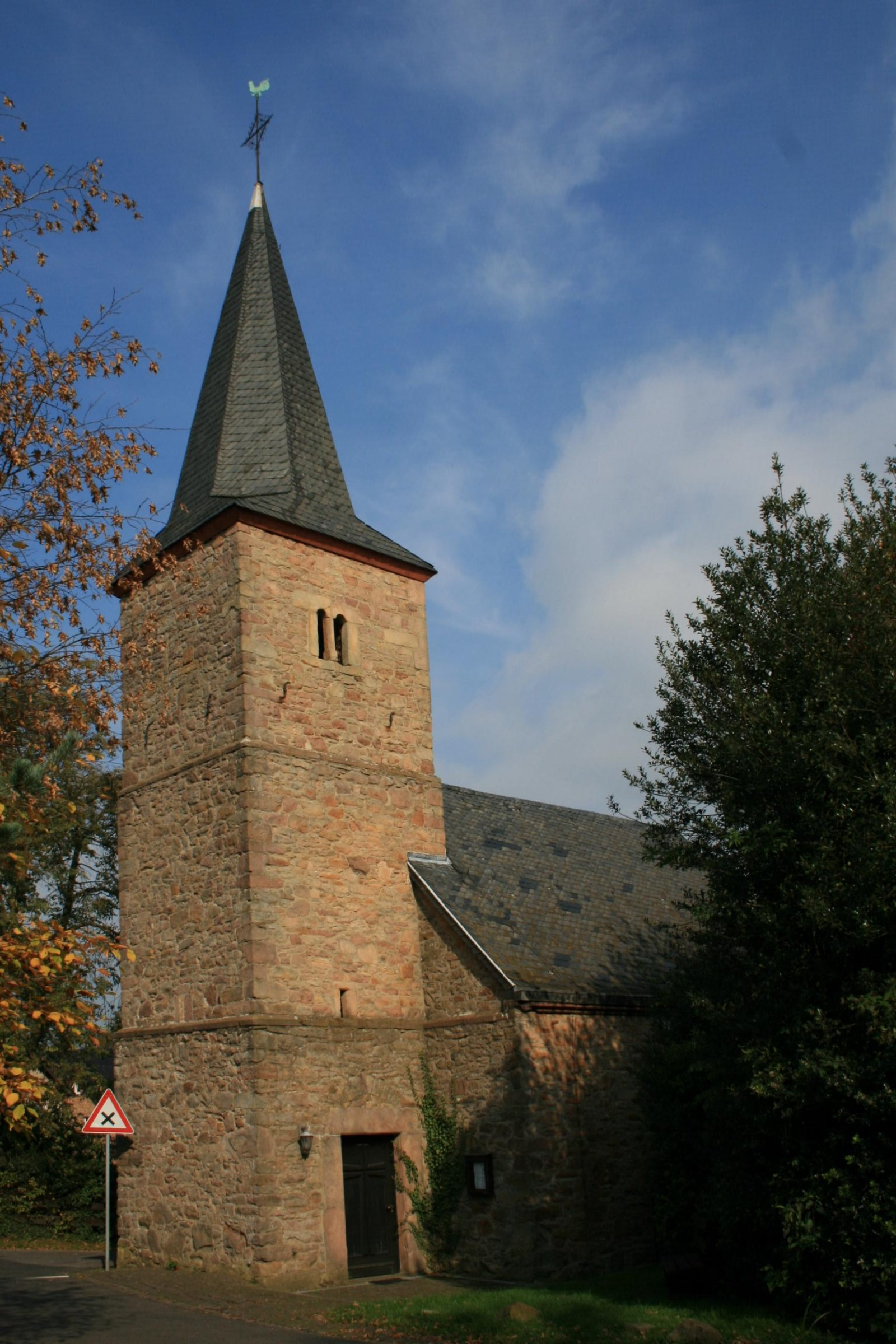 Cultural heritage monument No. 68 in Kreuzau